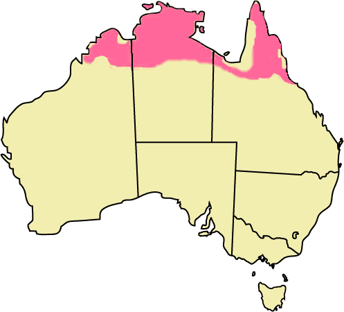 Map displaying the outline of Australia, using Image:Australia locator-MJC.png but whitespace surrounding the outline removed, derived from Image:Tasmania locator-MJC.png. Map shows the distribution of the Antilopine kangaroo (also called a wallaroo) in northern Australia[1].